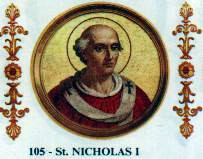 Reproduction of the portrait of Pope Nicholas I in the Basilica of Saint Paul Outside the Walls, Rome